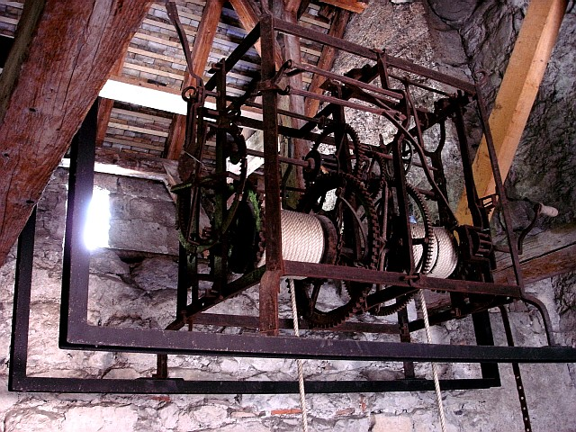 Chillon